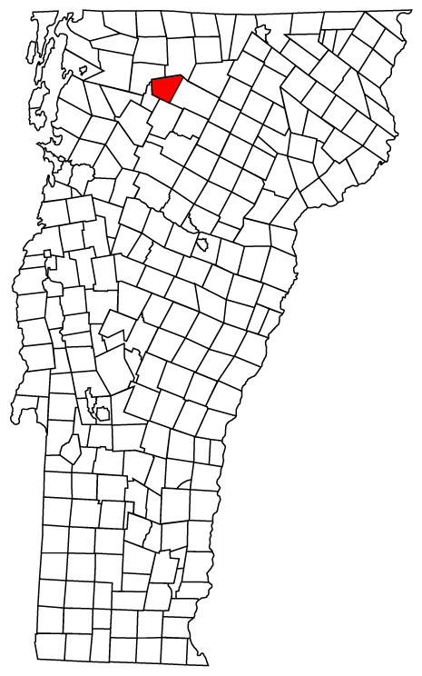 Description: Map of Vermont towns with Belvidere highlighted Source: Map created by Jared C. Benedict on 26 March 2004. Copyright: © Jared C. Benedict.